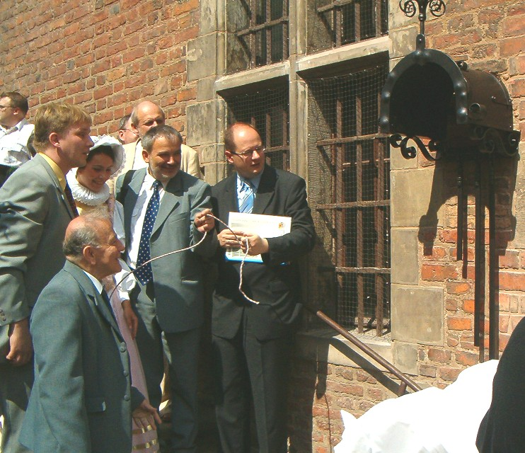 Measures of Gdansk on the day of uncovery its reconstruction. Paweł Adamowicz - center. Andrzej Januszajtis - down, left.